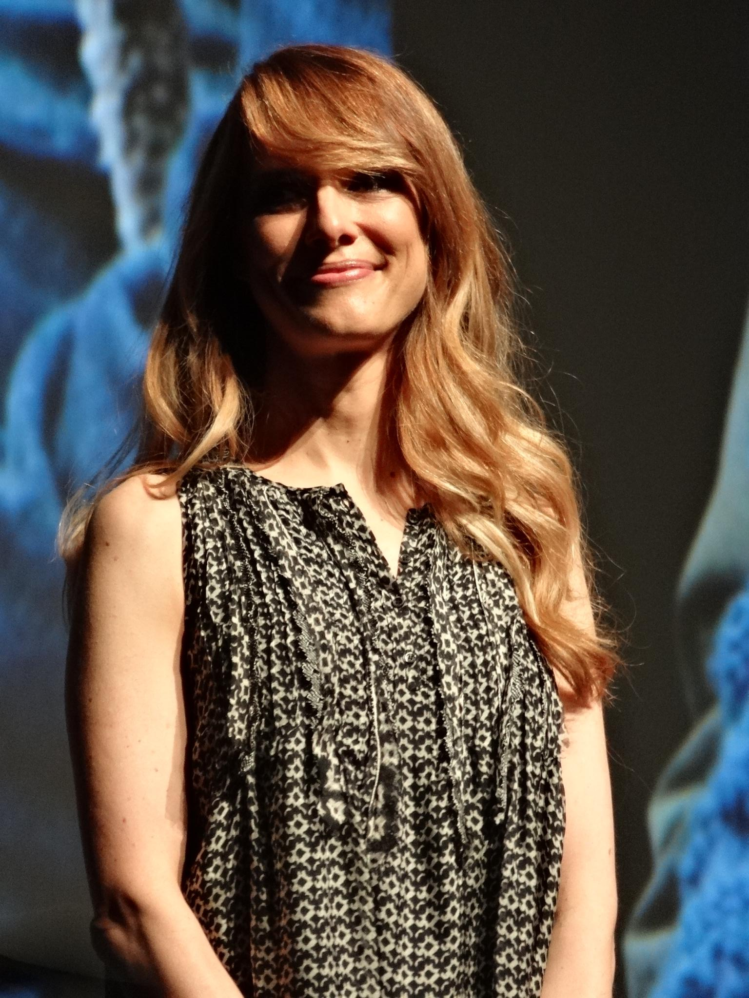 Lynn Shelton onstage